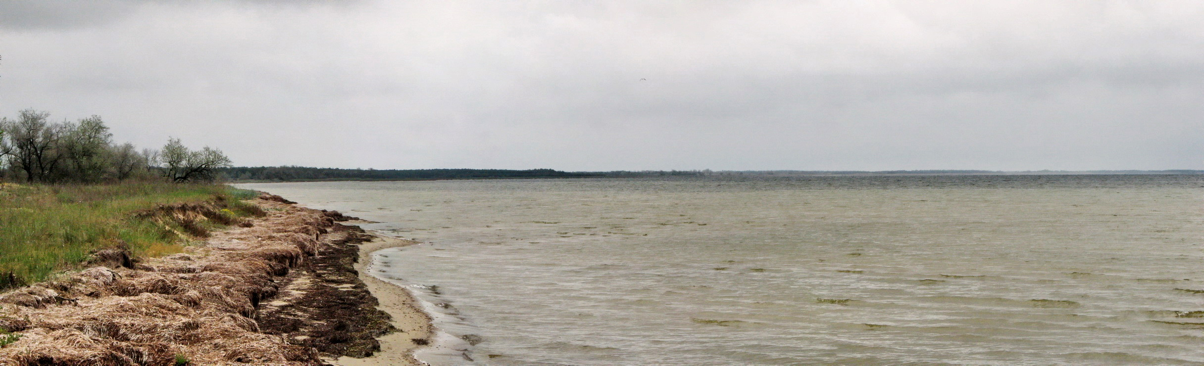 Yagorlickiy bay